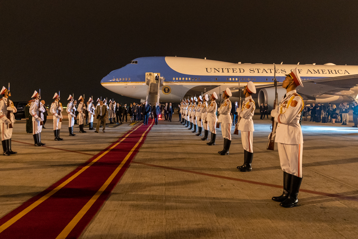 President Donald J. Trump, escorted by Mai Phuoc Dung, Director General of State Protocol of the Socialist Republic of Vietnam, walks along a red carpet from Air Force One and reviews an Honor Cordon upon his arrival Tuesday, Feb. 26, 2019, at Noi Bai International Airport in Hanoi. (Official White House Photo by Shealah Craighead)